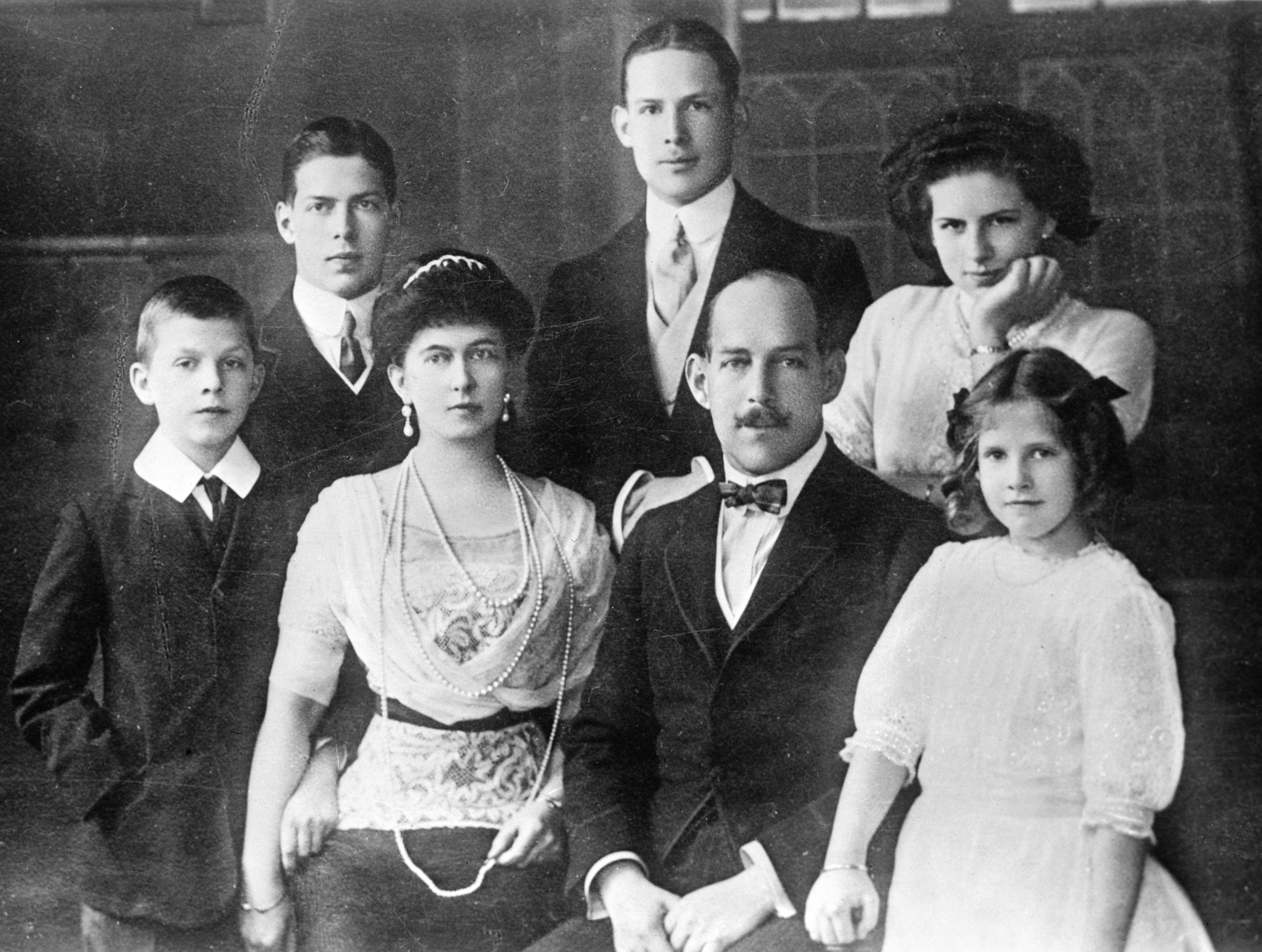 Crown Prince and Princess of Greece and family. Clockwise from far left: Paul, Alexander, George, Helen, Irene, Constantine and Sophia.